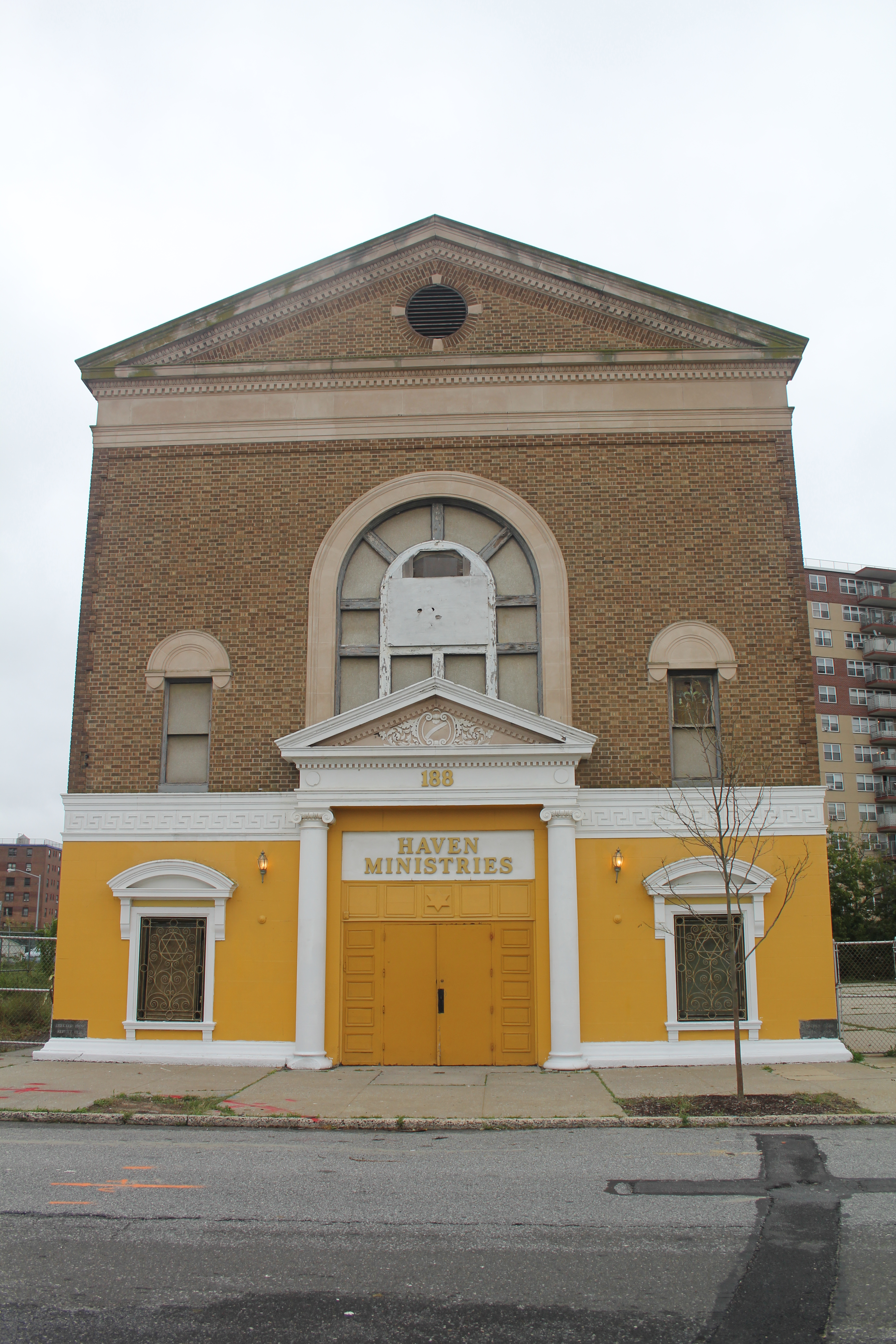 Temple of Israel Synagogue in Rockaway Beach, Queens, New York. Front elevation.